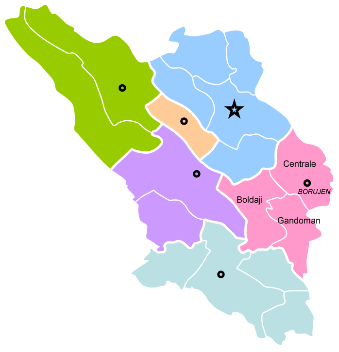 Map of Borujen sharestan in Chahar Mahal and Bakhtiari province, Iran